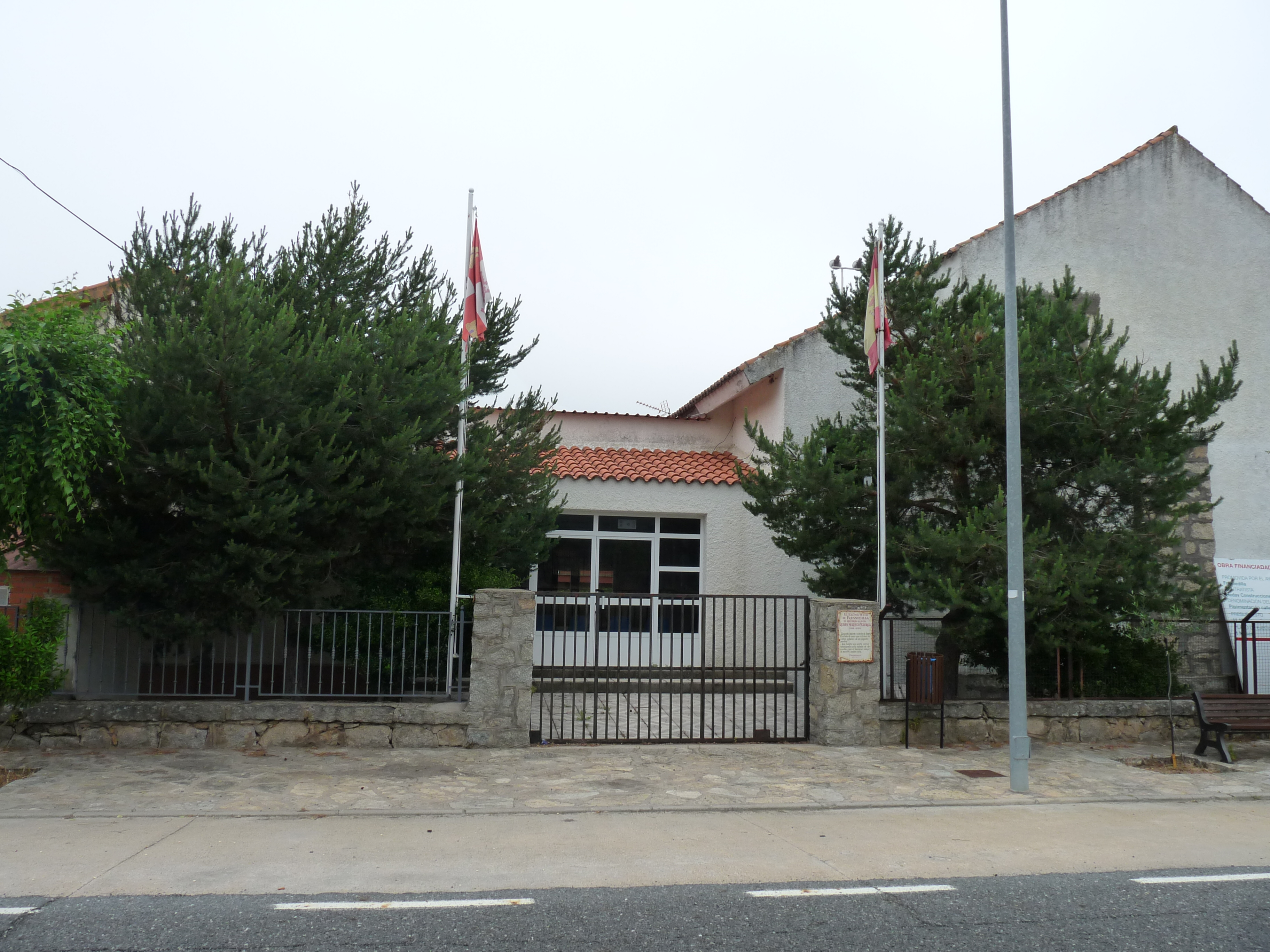 View of Fresnedilla Town Hall, Ávila, Castile and León, Spain.